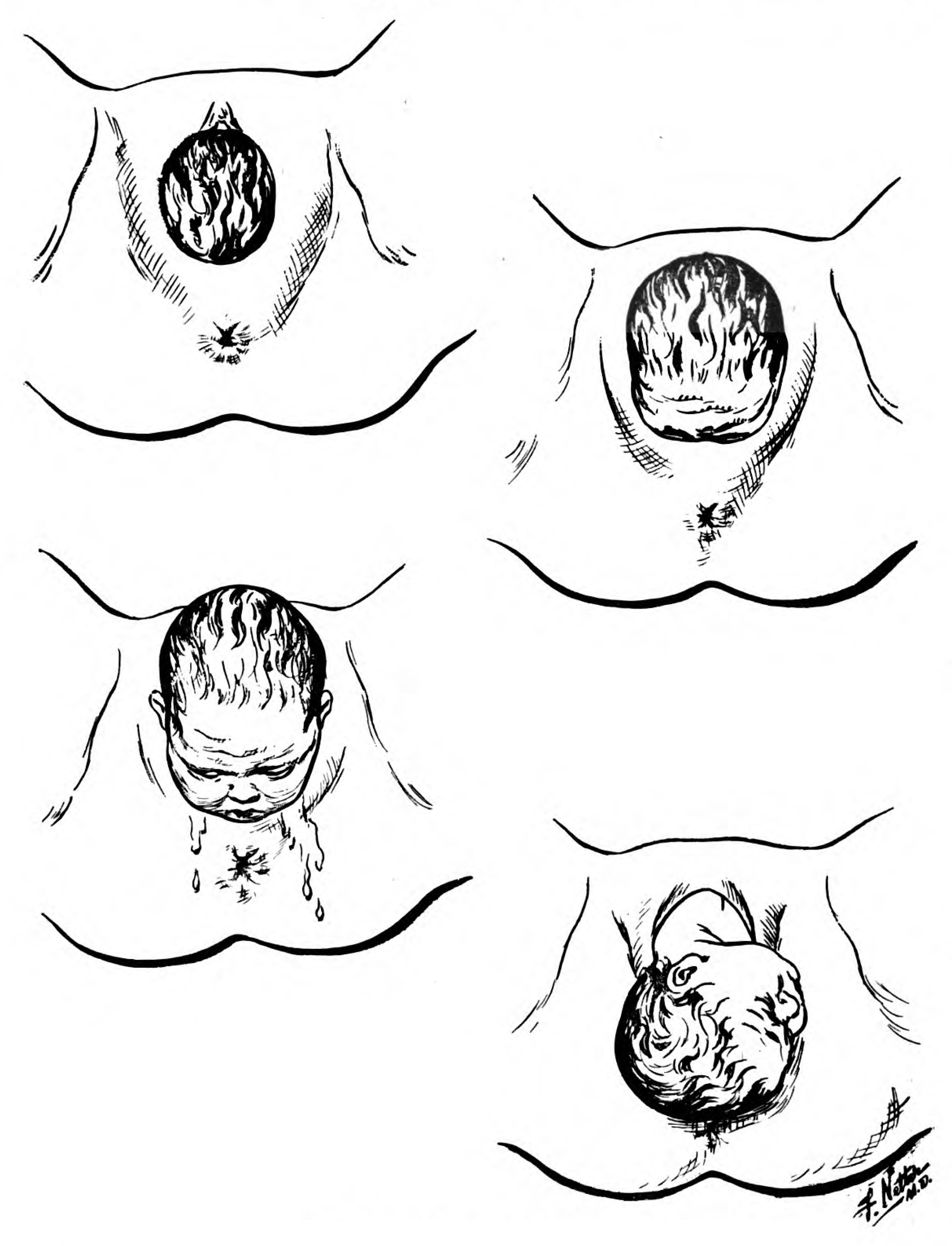 Stages in the birth of the baby's head. Illustration by Frank Netter NOTE: Do not remove signature, this is not a watermark